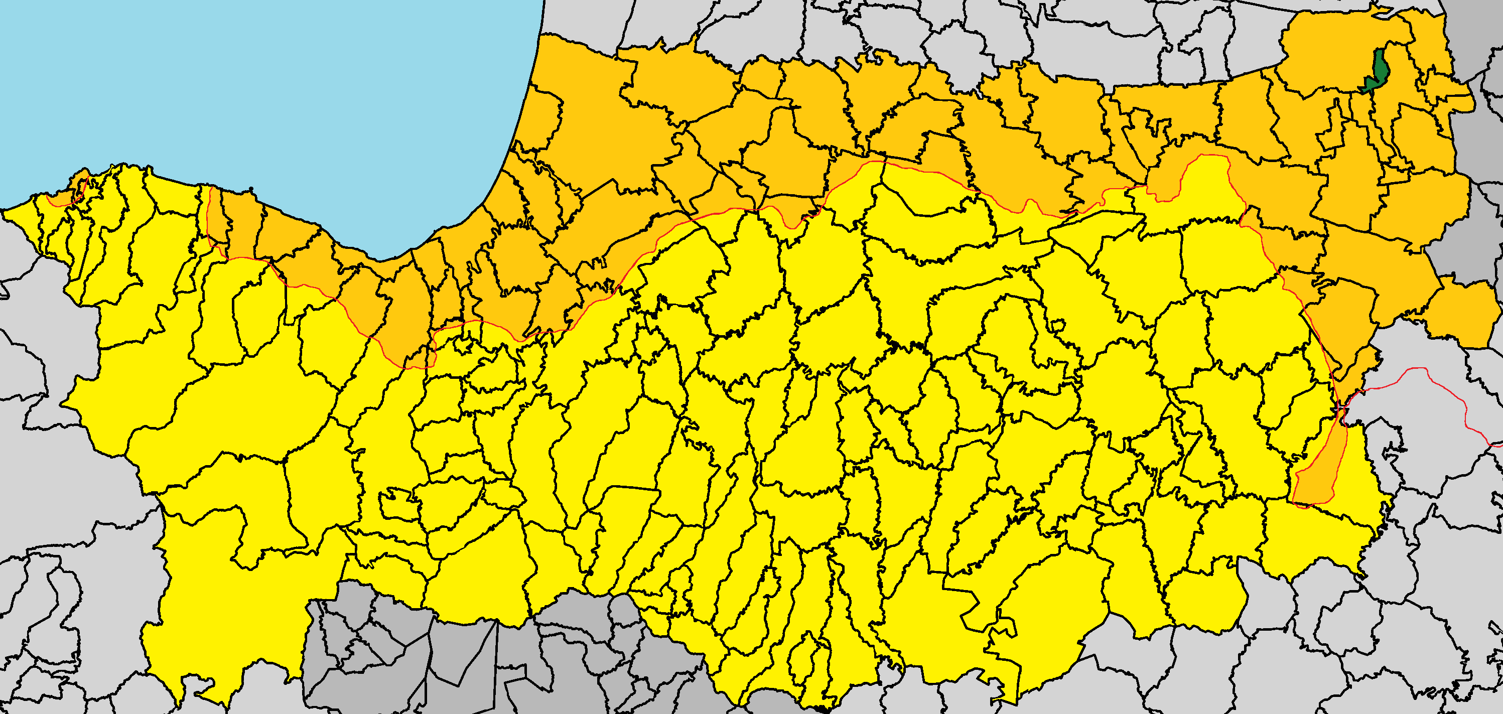 Beyköy in Nicosia District (de jure).